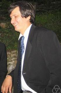 Maxim Kontsevich